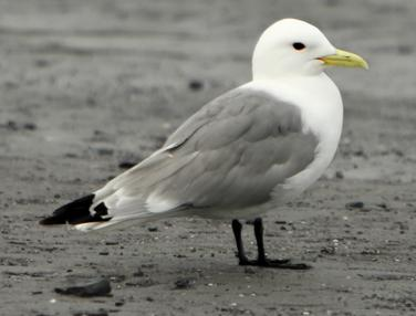 Black legged Kittiwake (Rissa tridactyla) on the beach in Homer, on the Kenai peninsula, Alaska.